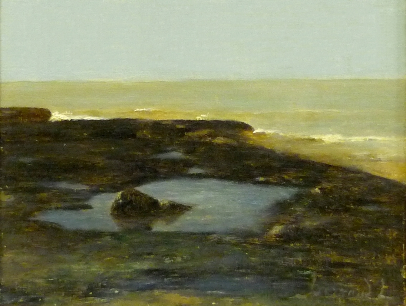 Léonard Jarraud : La mer à Royan, or : La flaque (21,5 x 26,5 cm), 1871. Musée d'Angoulême, Charente (France).